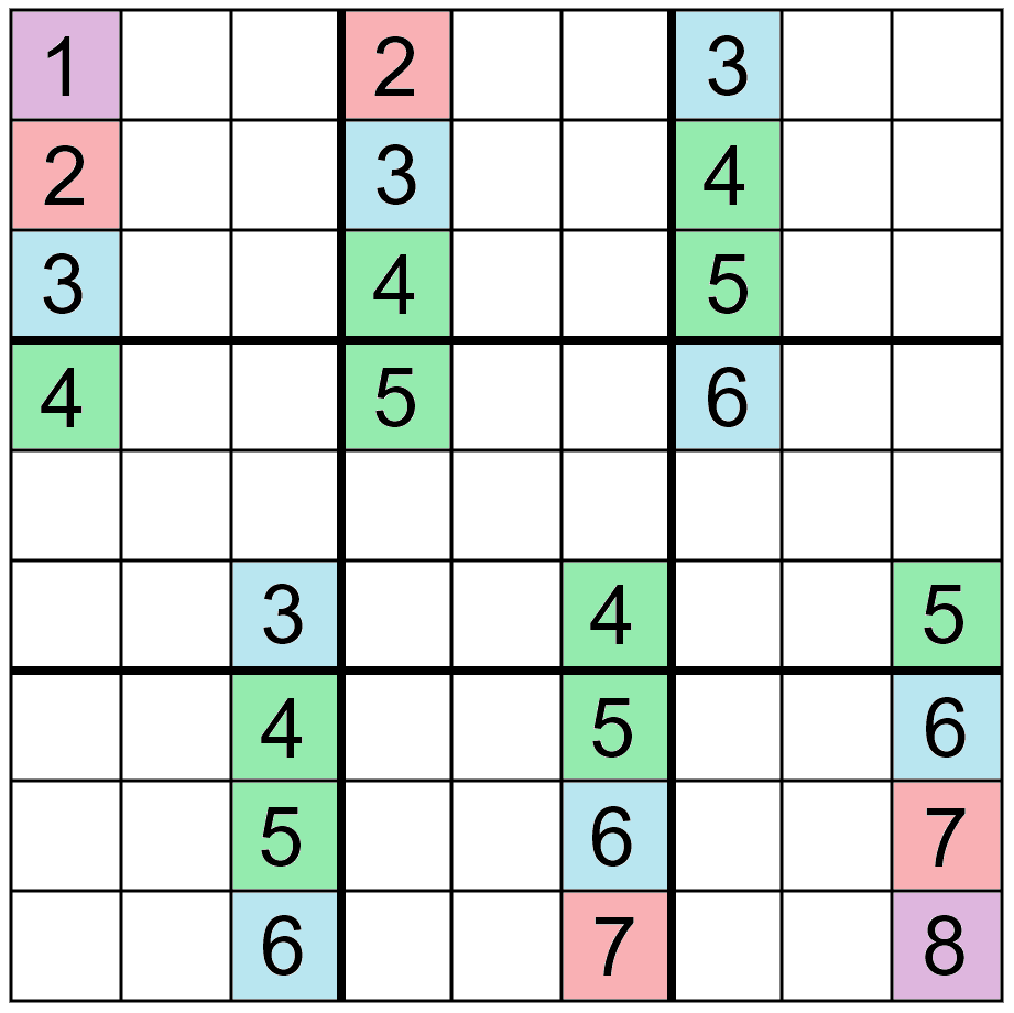 A 24-clue automorphic sudoku with translational symmetry by Rico Alan.